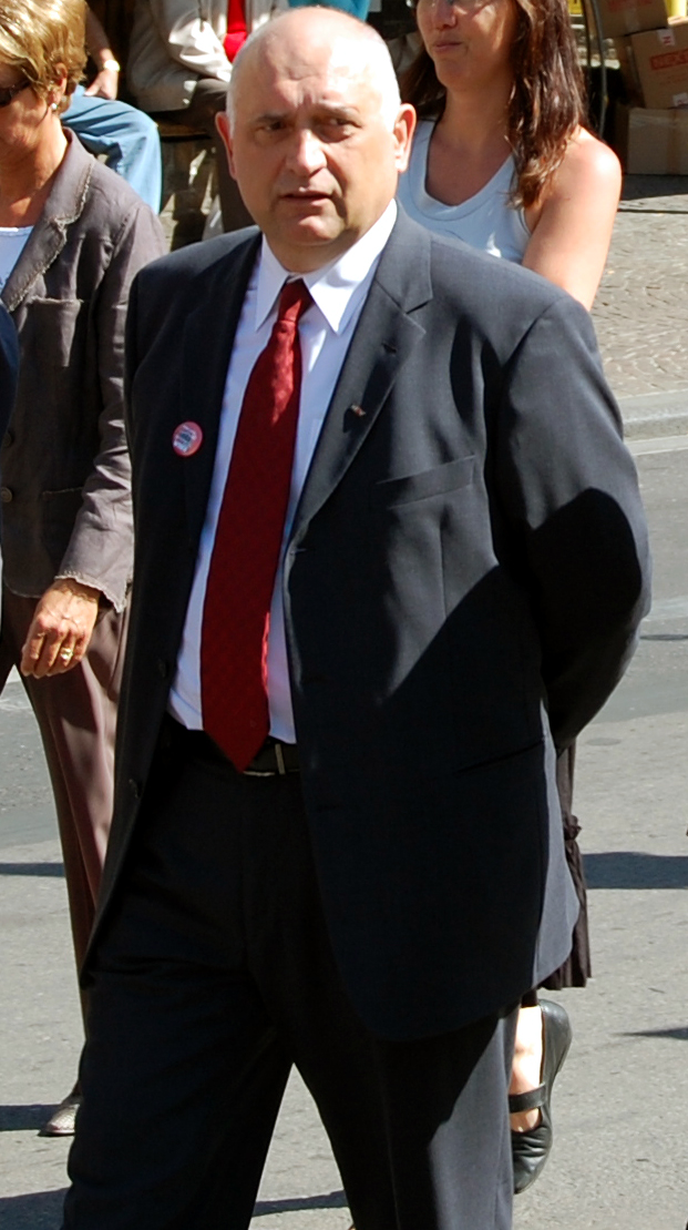 Chairman Rudy De Leeuw of the Belgian workers Union ABVV